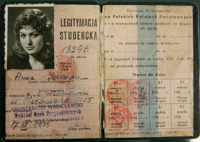 Anna German's student identity card